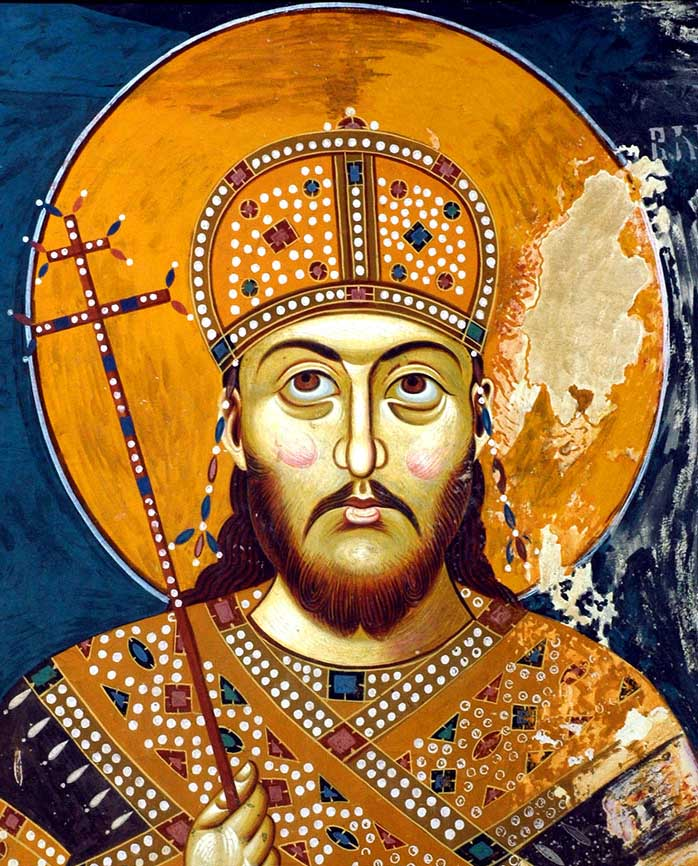 Detail of fresco depicting Serbian Emperor Stefan Dušan. Painted in the mid-14th century. Restorated (coloured). Lesnovo Monastery, Republic of Macedonia.